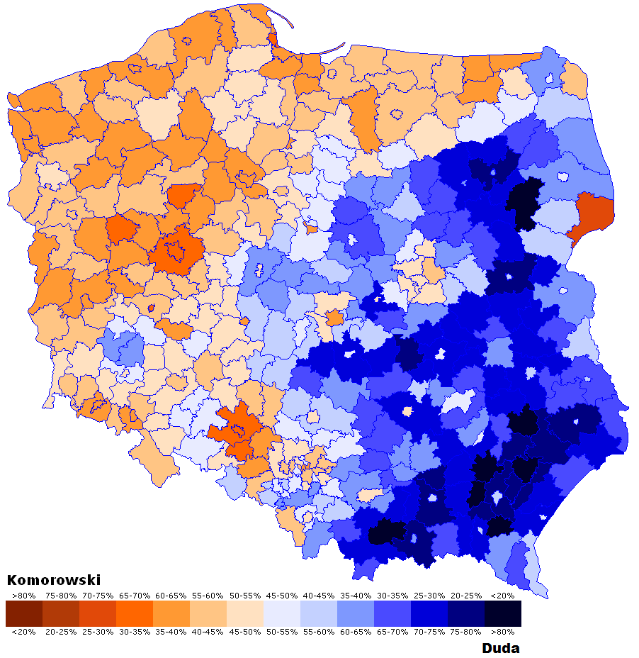 Polish presidential election, 2015 - results of the II round (24 May 2015) by counties